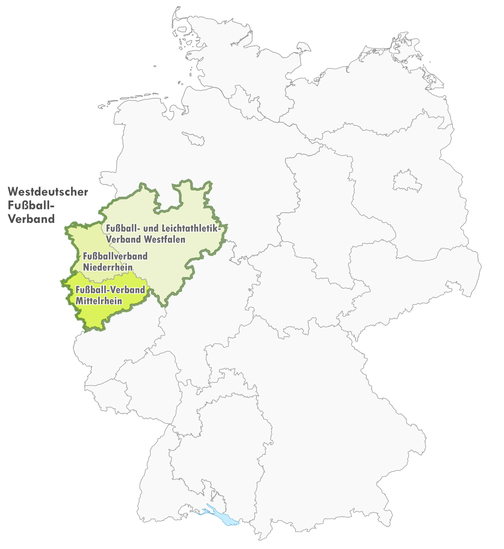 Map of regional soccer association of Westdeutschland, Germany